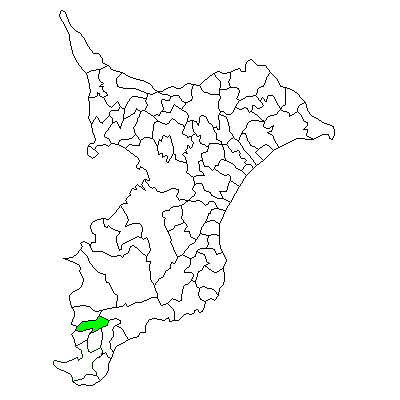 Location Map of former Tomiyama Town, Chiba Prefecture, Japan, now part of Minamiboso City.